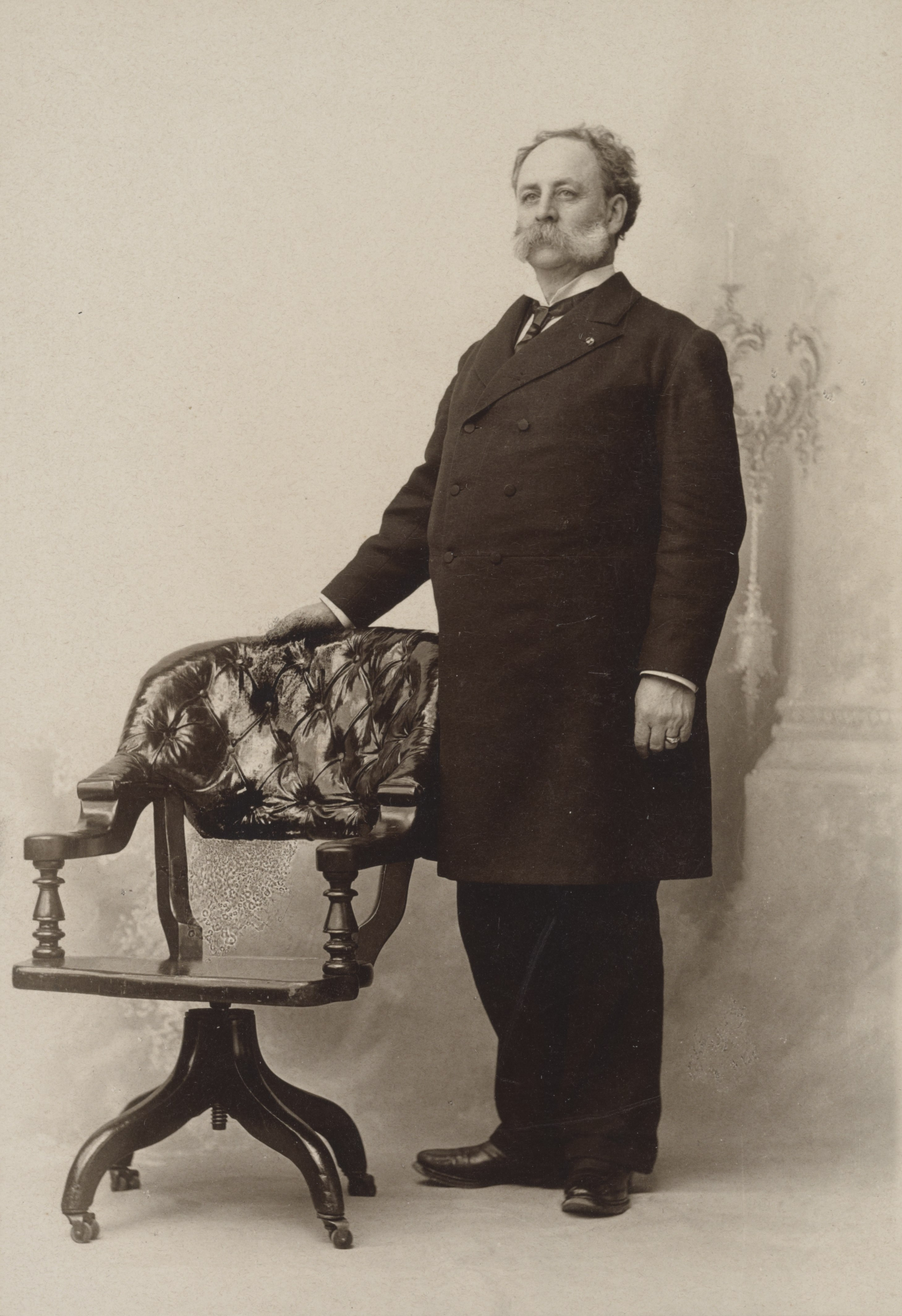 Title: Civil War veteran Wilmon Whilldin Blackmar with Grant's chair] / Partridge, Boston and vicinity Abstract/medium: 1 photograph : print ; sheet 14 x 10 cm, mount 20 x 15 cm.